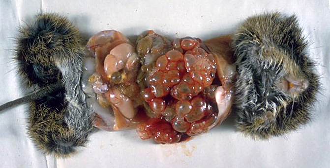 Gross pathology of cotton rat infected with Echinococcus multilocularis, a species of cyclophyllid tapeworm. First E. multilocularis isolated in the United States proper. Necropsy.